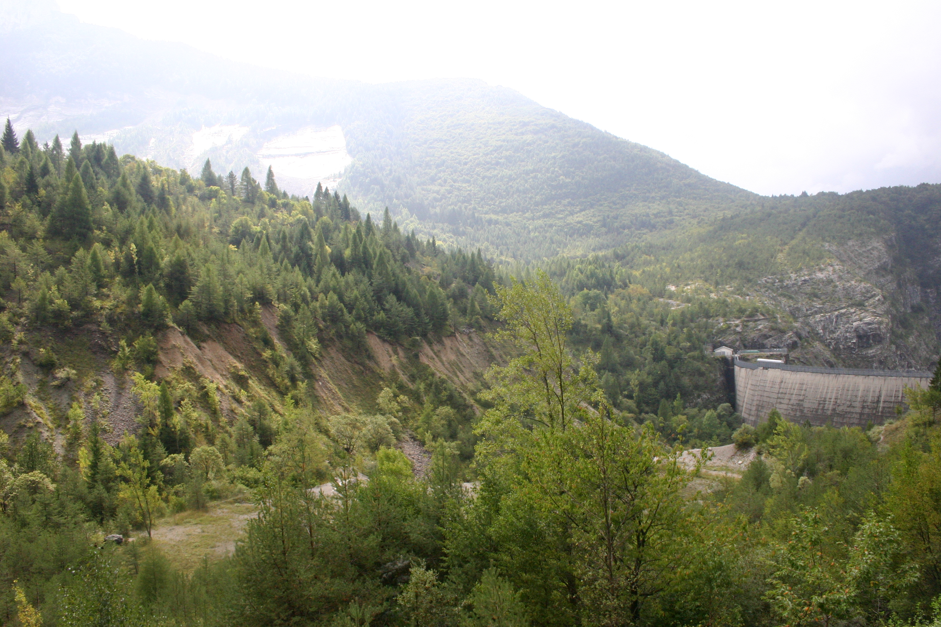 Debris of the 1963 catastrophe at Vajont dam, Dolomites, Italy, and the dam itself on the right as of Sept. 2009